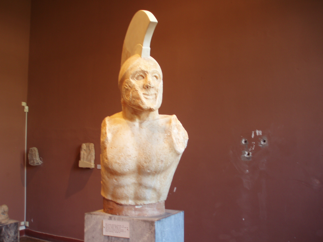 Bust of Lenidas I. 71, Osiou Nikonos Street. Sparta 23100, Greece.